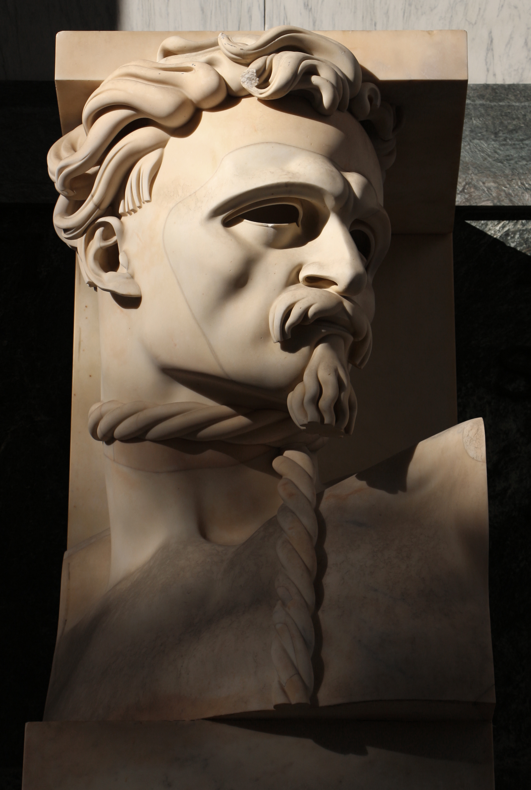 Monument to Victory, Bolzano